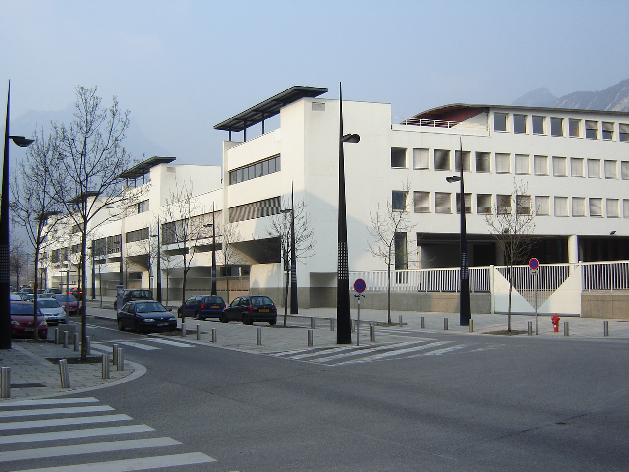 International school, Europole quarter, Grenoble